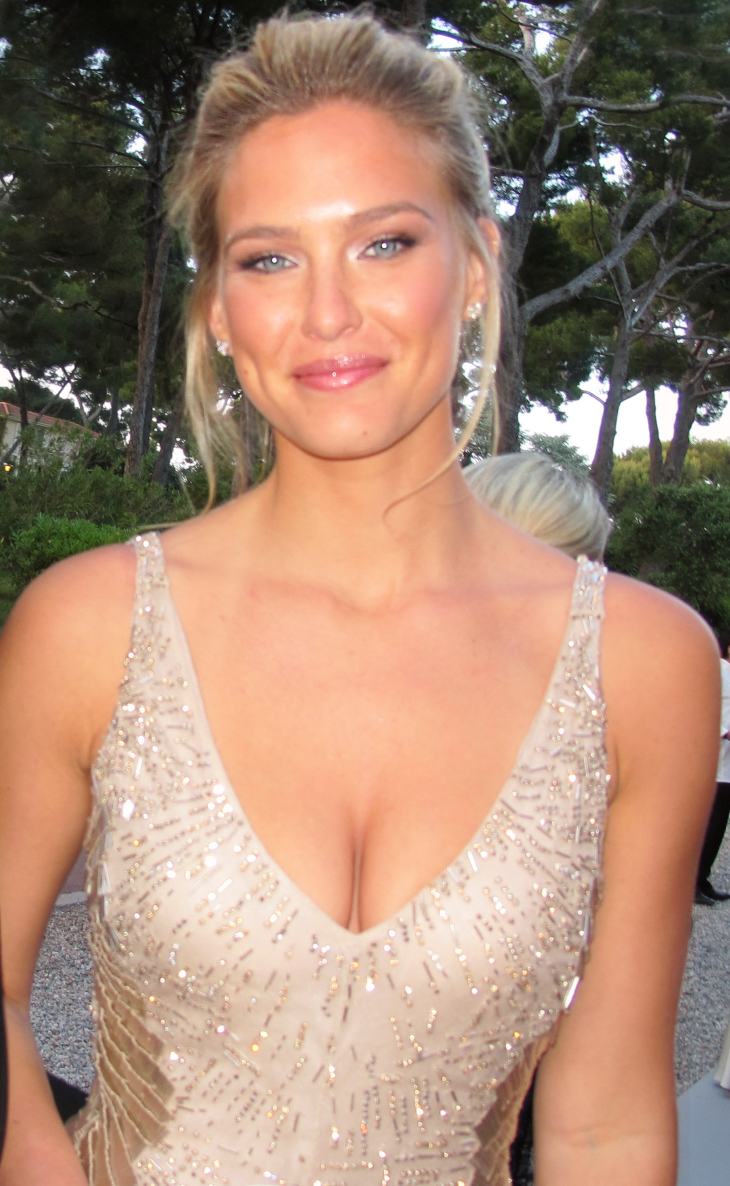 Bar Refaeli at the Cinema Against AIDS 2011.